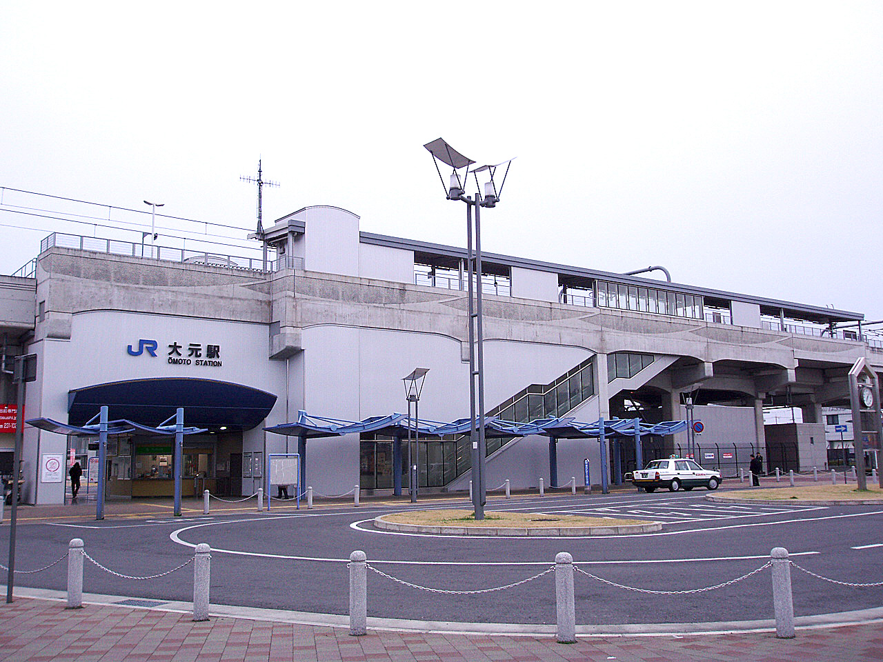 West Japan Railway Uno Line（Seto-Ohashi Line） Omoto Station Building West Gate 西日本旅客鉄道 宇野線（瀬戸大橋線） 大元駅駅建物 西出口